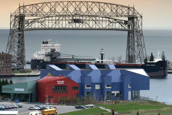 The Great Lakes Aquarium in Duluth, Minnesota. In the background, the lake freighter Canadian Transport is shown passing through the Aerial Lift Bridge into Duluth harbor.